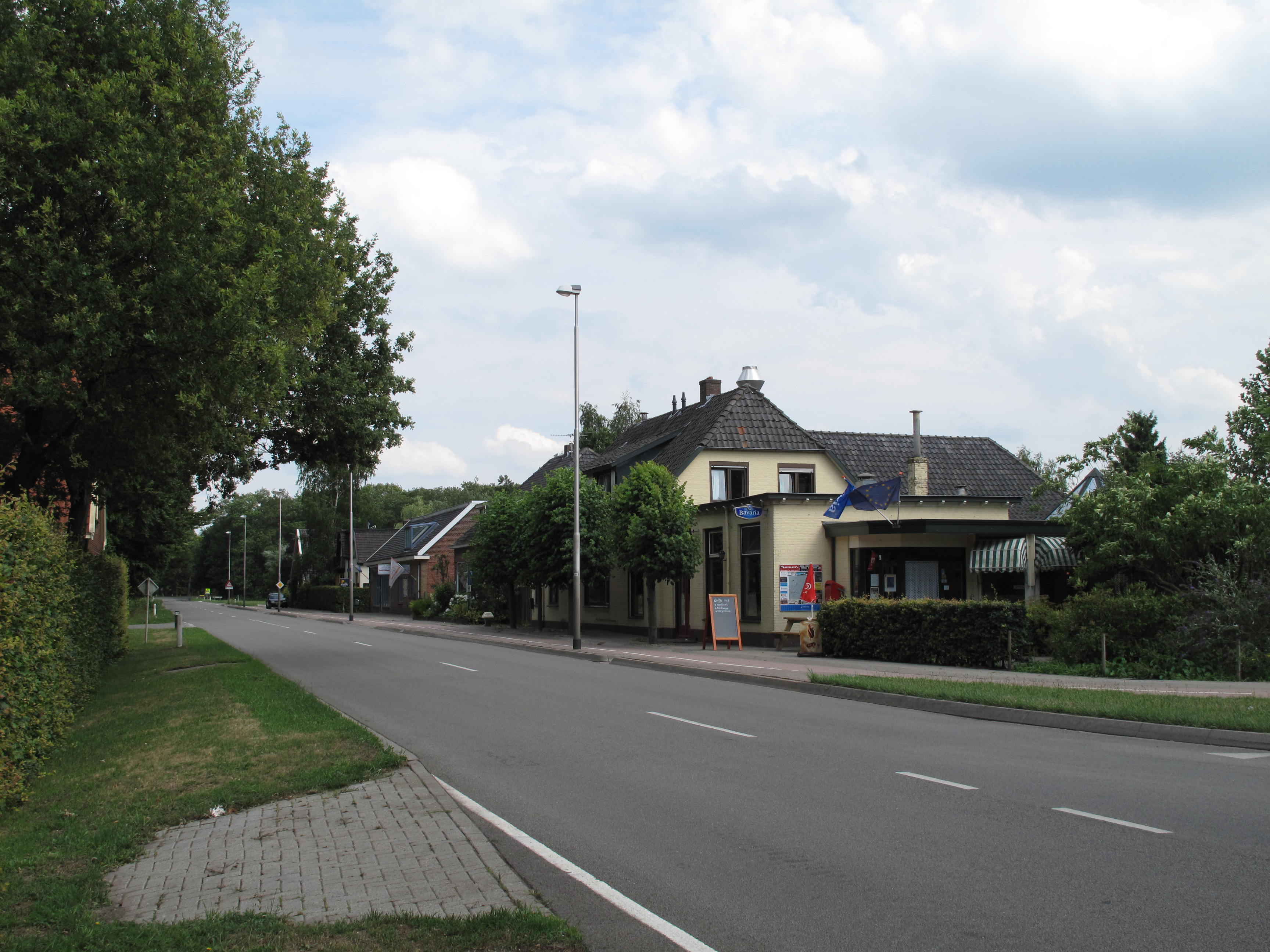 Medler, view to the street